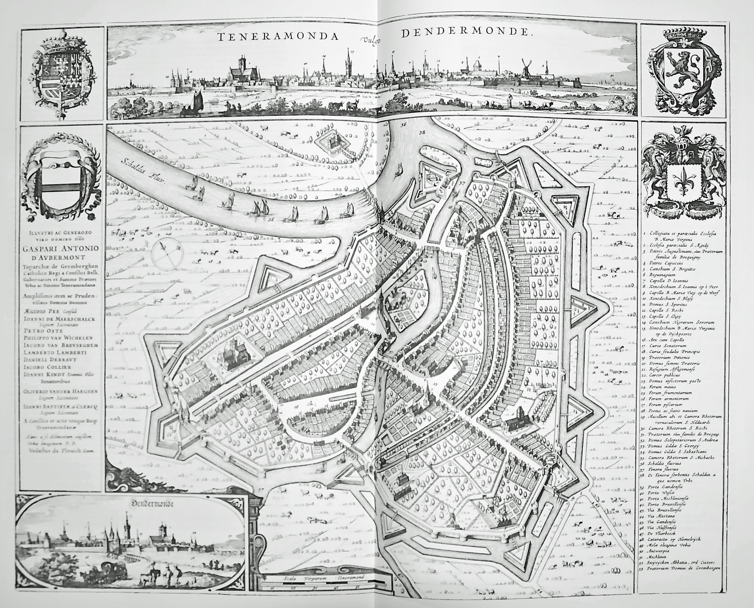 Dendermonde (Belgium): Page 592 of Antoon Sanders Flandria Illustrata